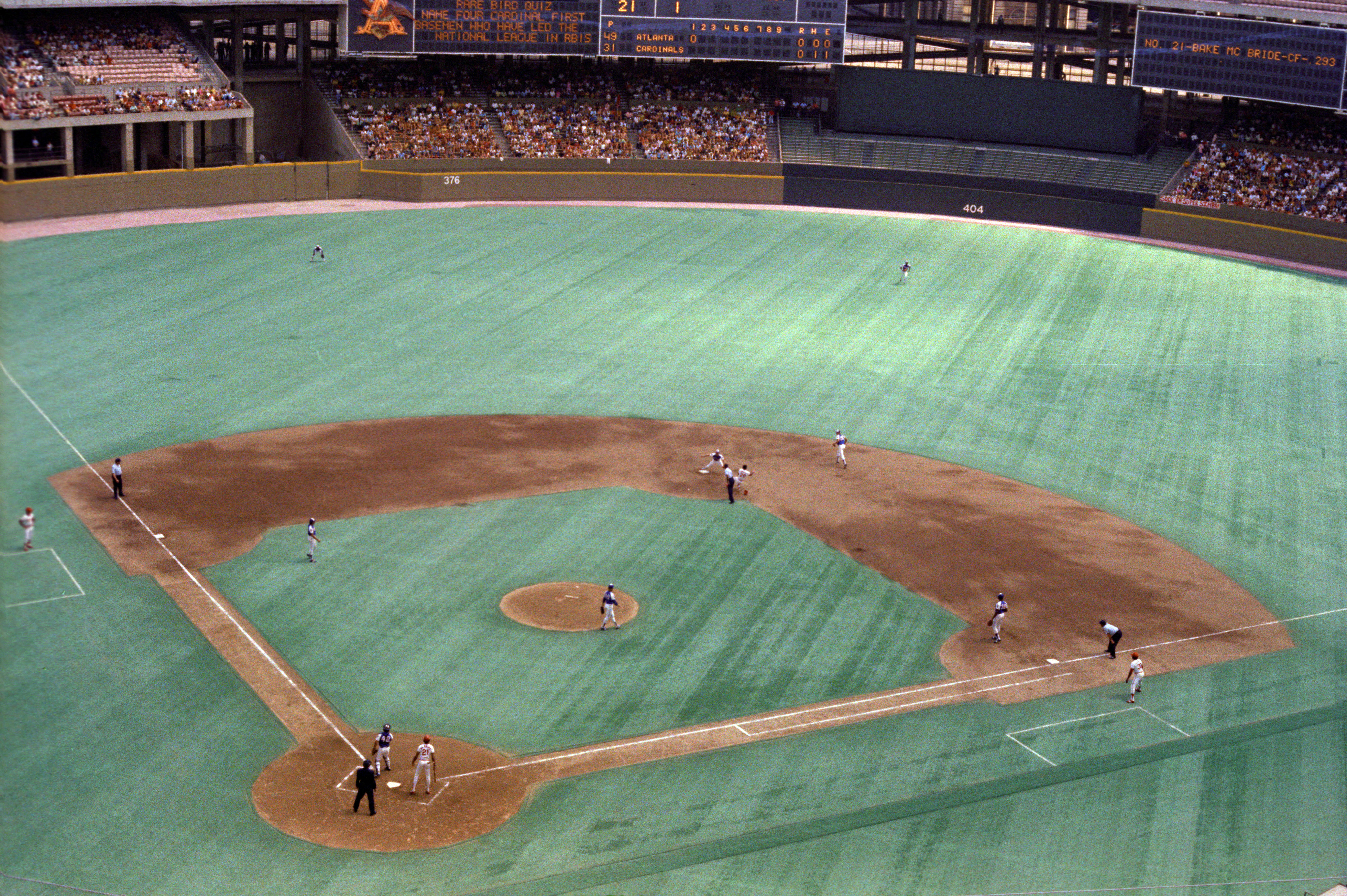 Lou Brock steals second base during a August 24, 1975 home game against the Atlanta Braves at Busch Stadium. Carl Morton was pitching; it was the bottom of the 1st inning. The scoreboard notes that Bob Forsch was pitching for the Cardinals; it also offers spectators a "Rare Bird Quiz: "Name four Cardinal first basemen who have lead the National League in RBIs.